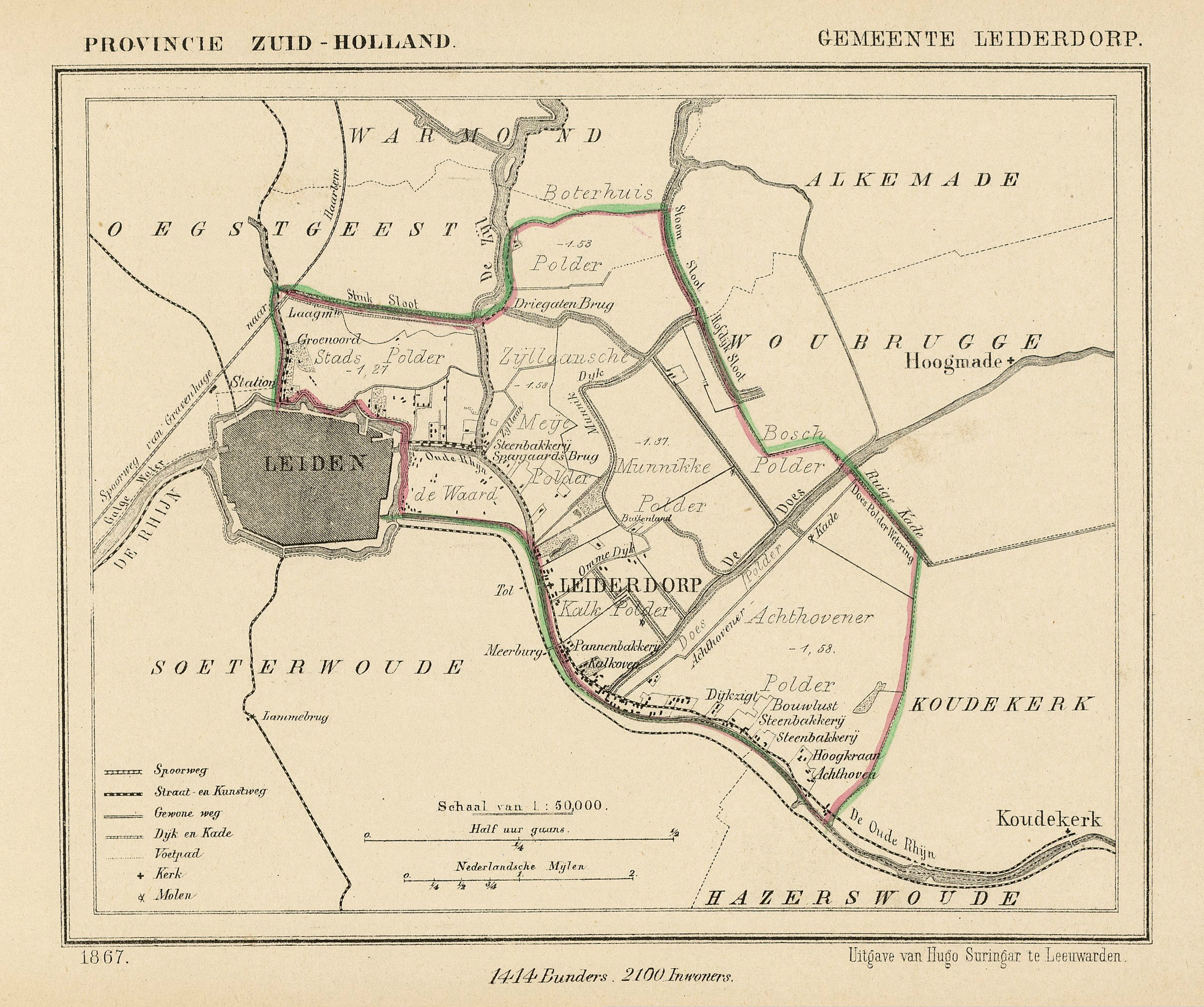 Map of 1867 of the municipality of Leiderdorp (close to the town of Leiden, Province of South Holland, Netherlands). Leiderdorp still exists as a separate municipality (2011).